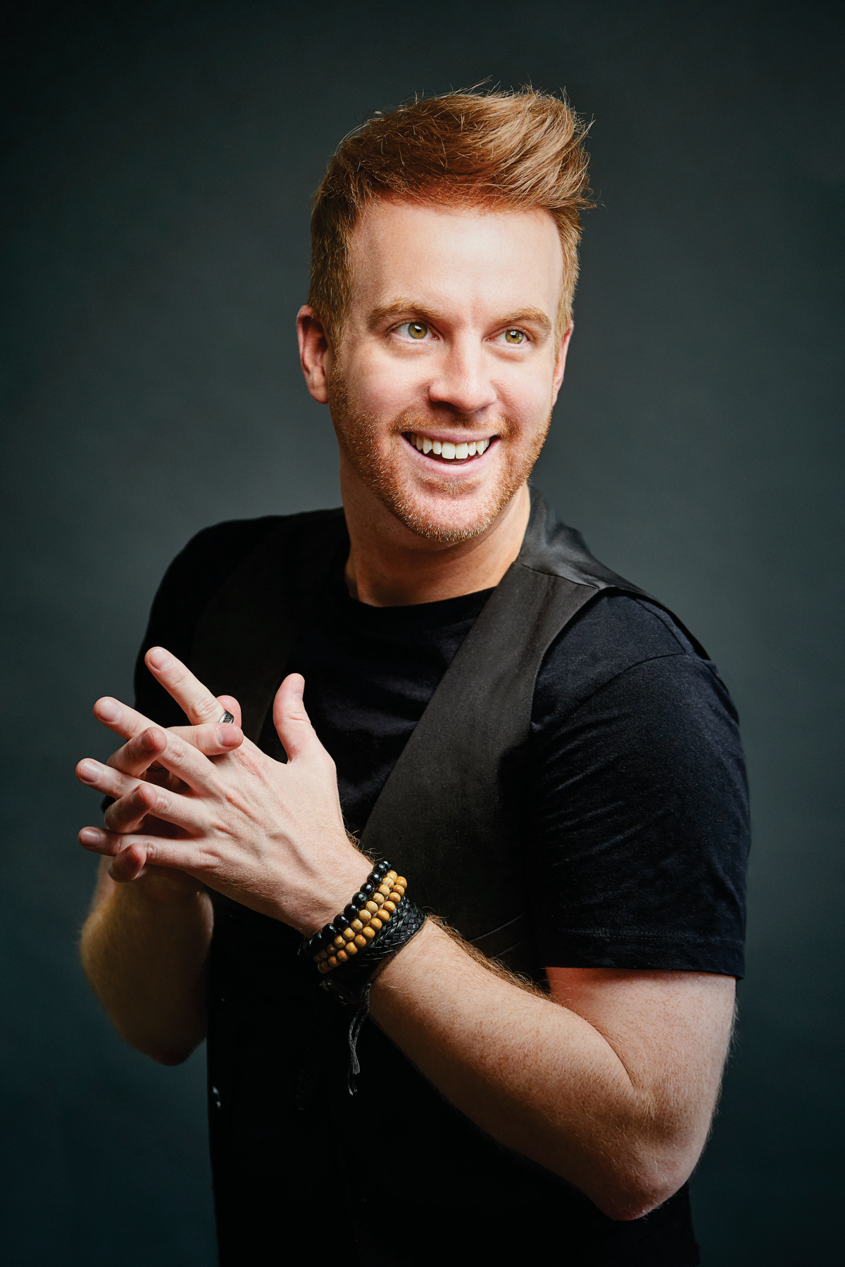 Tim O'Connor, CEO of Harvest Rain, Author of DAREDEVIL DREAMER